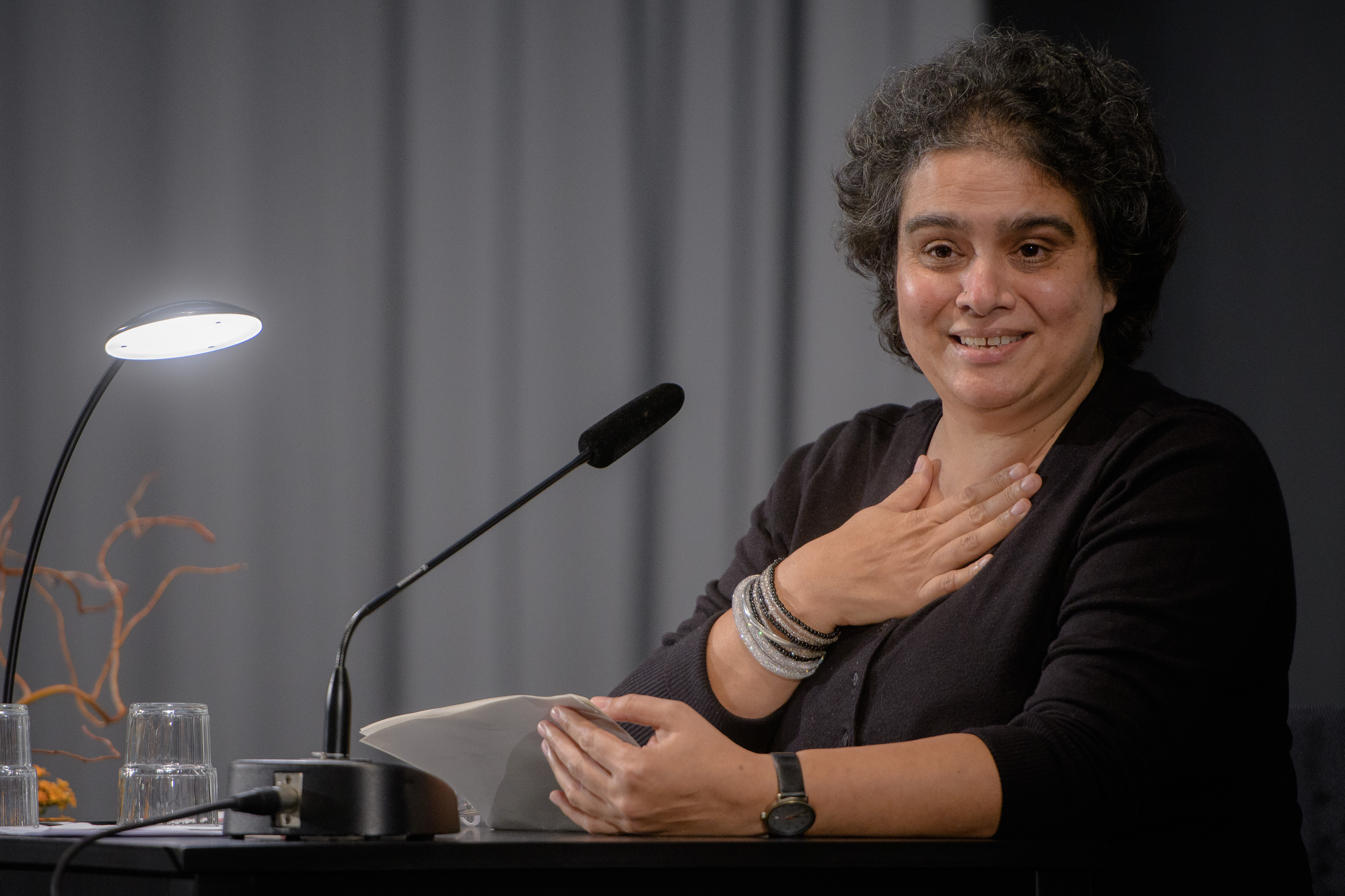 Nivedita Prasad (Professorin an der Alice Salomon Hochschule) Foto: stephan-roehl.de